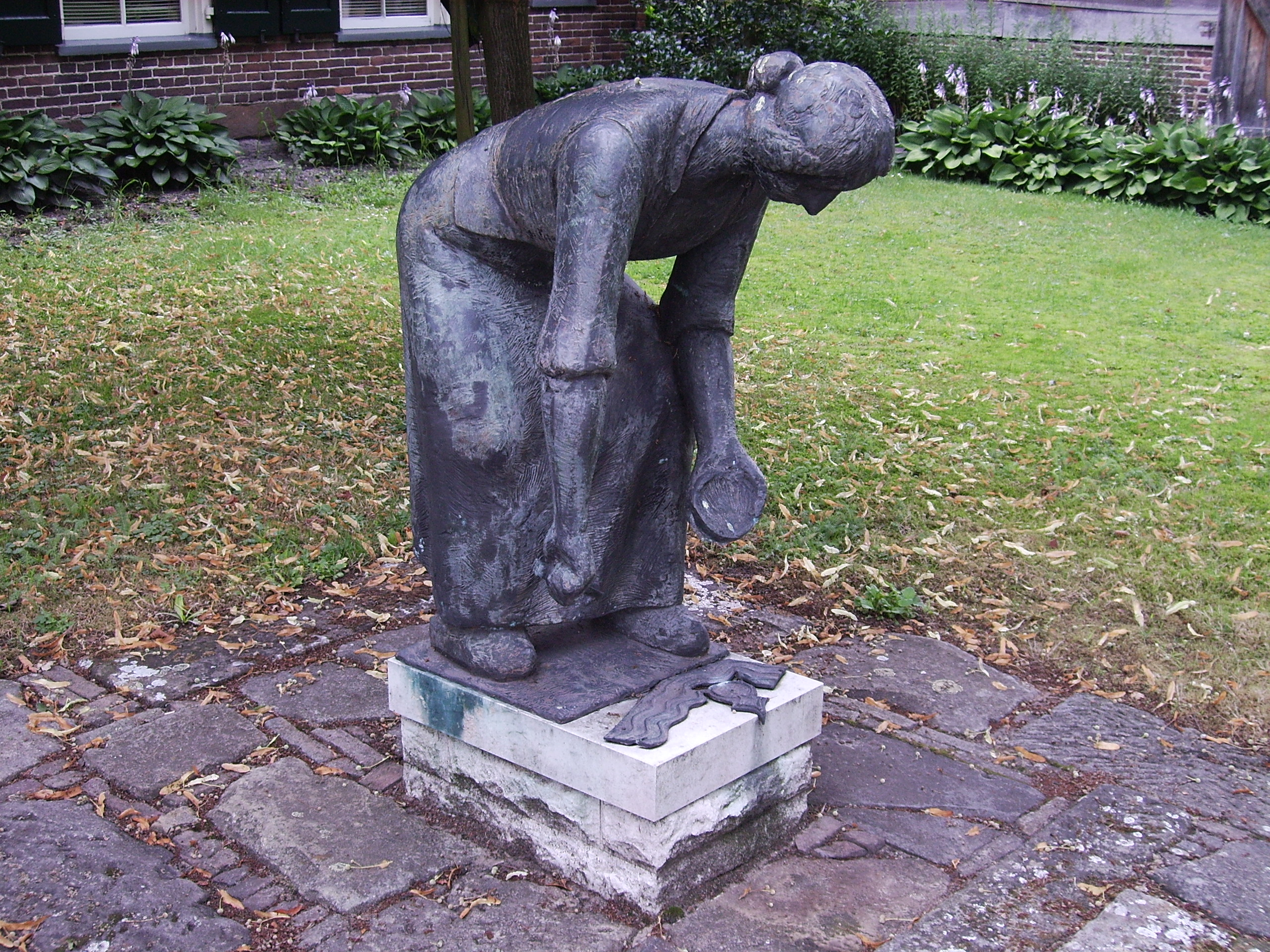 Statue of Zwaantje Hans scattering sand at Zwaantje Hans-Stokman's Hof museum in Schoonebeek, Emmen.